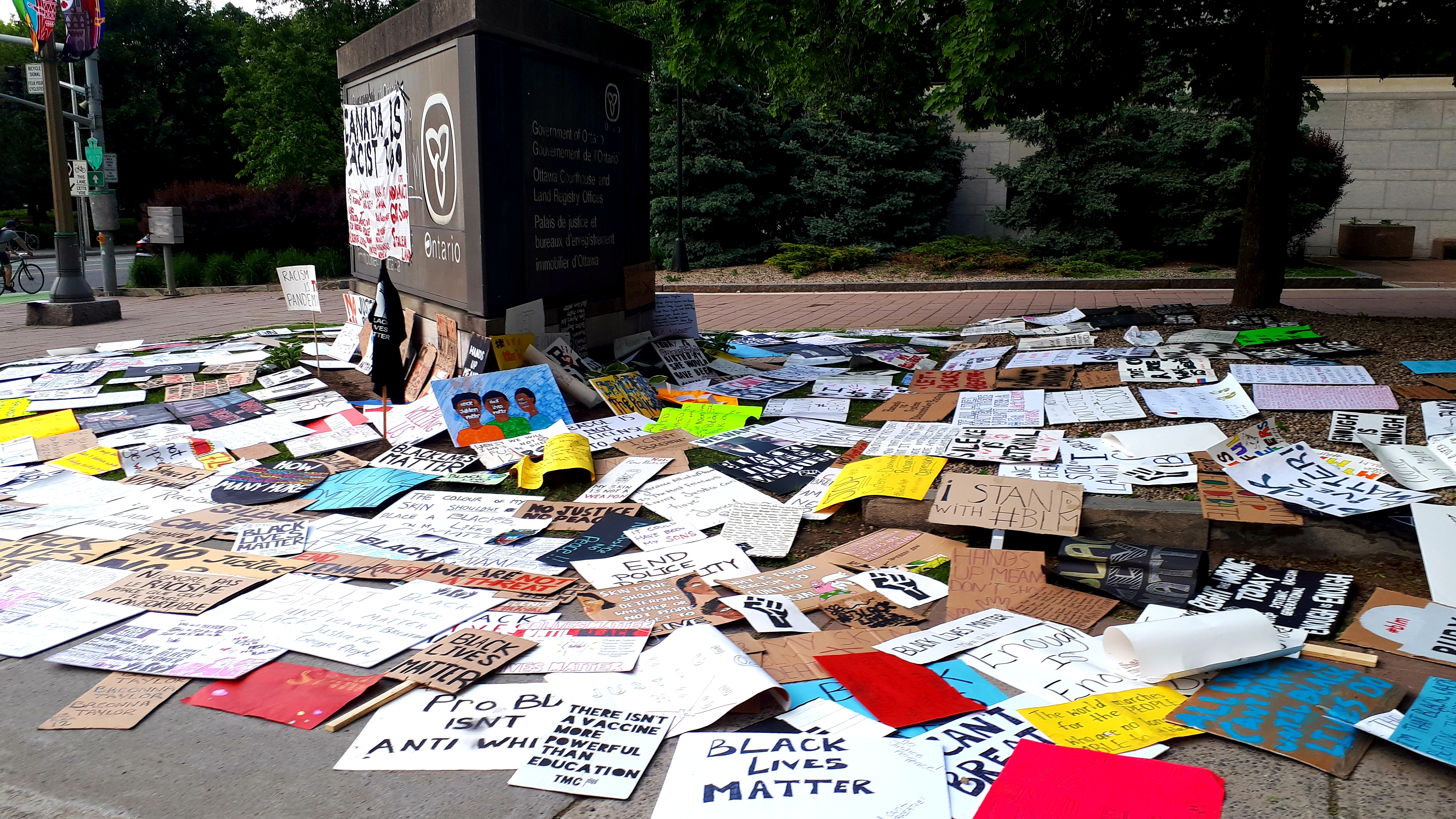 This is what happens when police aren't needlessly and overtly antagonistic while receiving inadequate training and surplus army equipment. Signs are laid down as a message and as symbols, not dropped and thrown away while being assaulted or running in an act of self-preservation. Canadian police aren't perfect and we as a nation have a lot to answer and make up for when it comes to racial discrimination. This isn't an opinion it's fact. But as someone who is black/white mixed race I also want to make clear my appreciation that I don't have to carry the same level of caution, apprehension or outright fear that people of black descent carry when dealing with law enforcement in the U.S. A place where even unborn black children are a target for police. Police who drive into crowds of protestors holding signs. Police who will lift a white protestor to their feet after telling them to move but assault the black protestor sitting beside them. Police who will kneel on the neck of an unarmed man for 8:46 while three others watch and do nothing to stop him. These issues aren't always easy or comfortable to discuss but few of the truly important things in life are always easy to do and it's up to all of us together to work towards these changes even if the end result isn't reached in this or the next generation's lifetime. Black. Lives. Fucking. Matter.